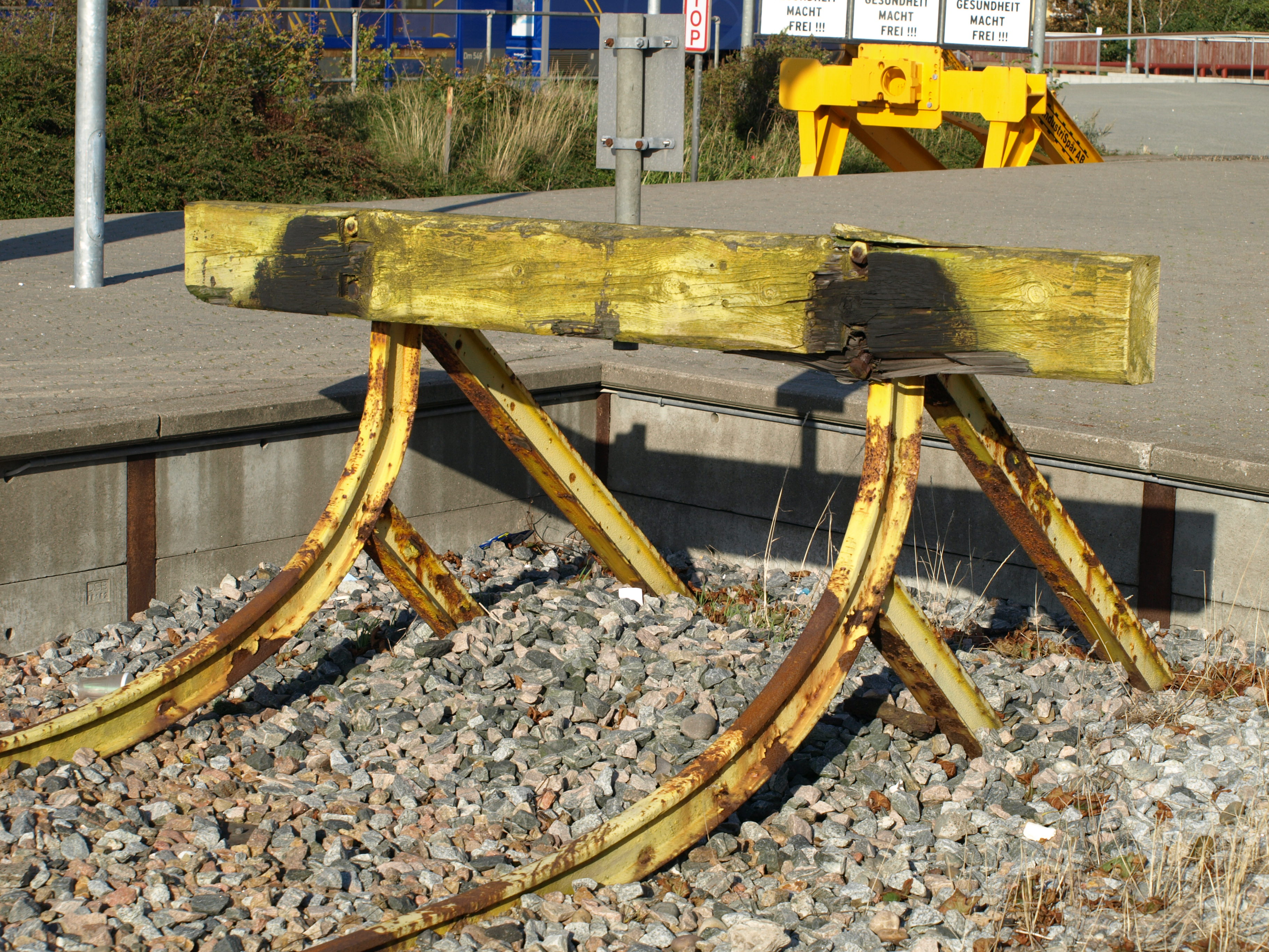 Skagen Railway station Lloc/Place:Skagen, Denmark